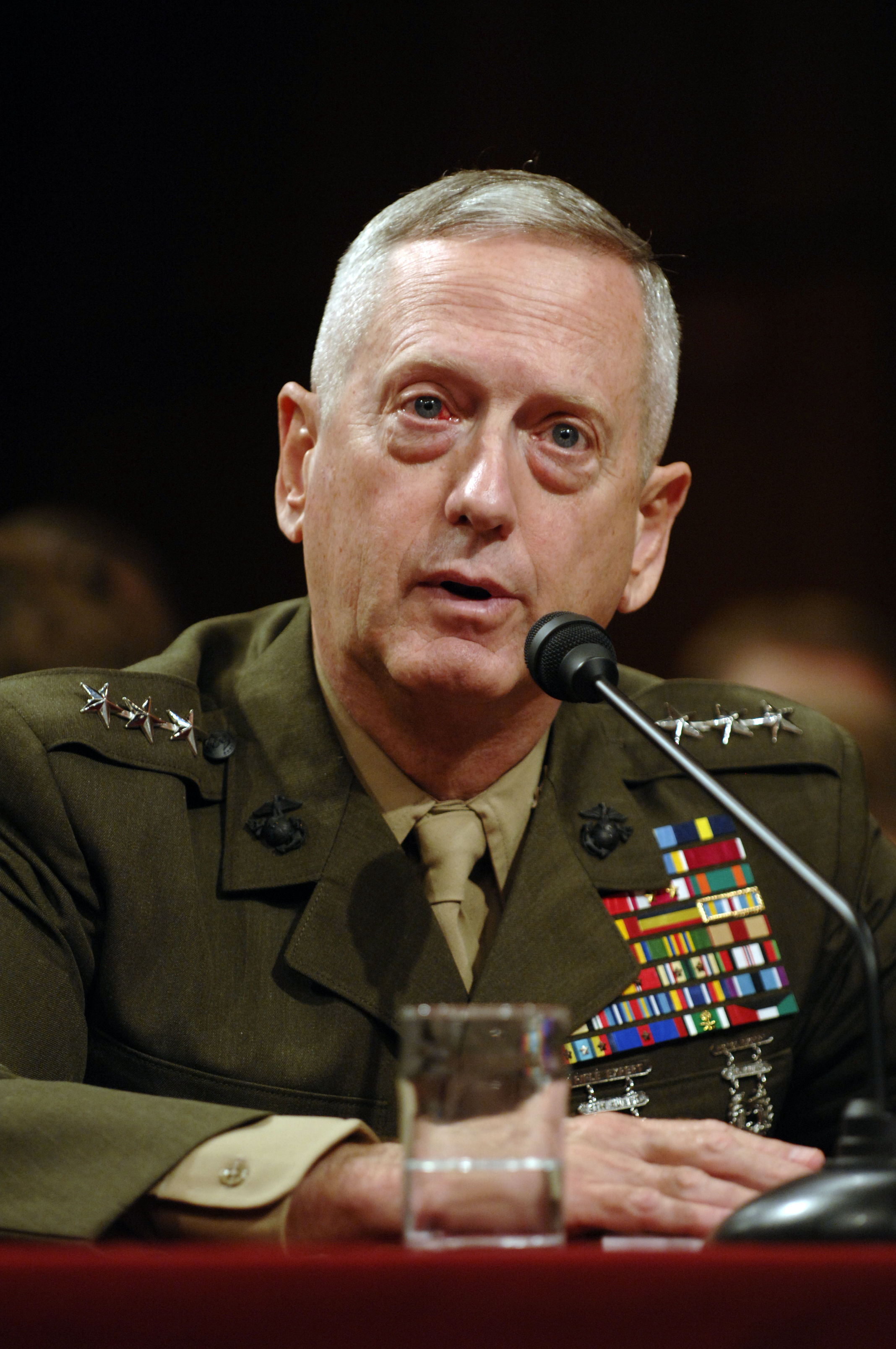 WASHINGTON (Sept. 27, 2007) – Marine Lt. Gen. James N. Mattis, testifies before the Committee on Armed Services during his confirmation hearing for appointment to Commander, United States Joint Forces Command and Supreme Allied Commander for Transformation. U.S. Navy photo by Chief Mass Communication Specialist Shawn P. Eklund (RELEASED)